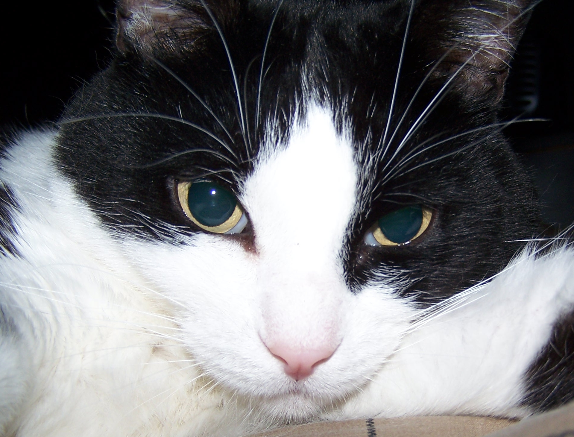 Cat.